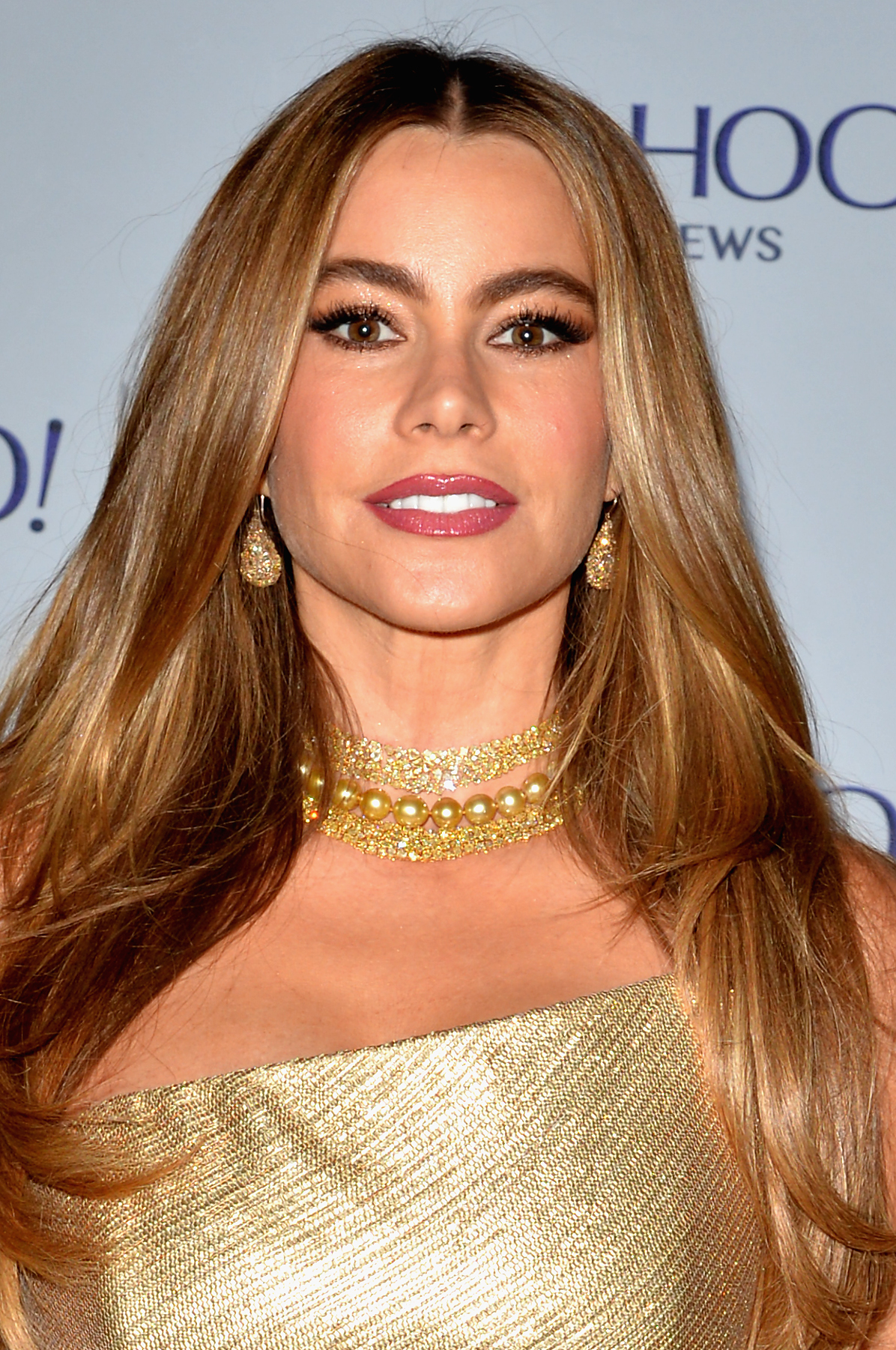 WASHINGTON, DC - MAY 03: Actress Sofía Vergara attends the Yahoo News/ABCNews Pre-White House Correspondents' dinner reception pre-party at Washington Hilton on May 3, 2014 in Washington, DC. (Photo by Andrew H. Walker/Getty Images for Yahoo News)